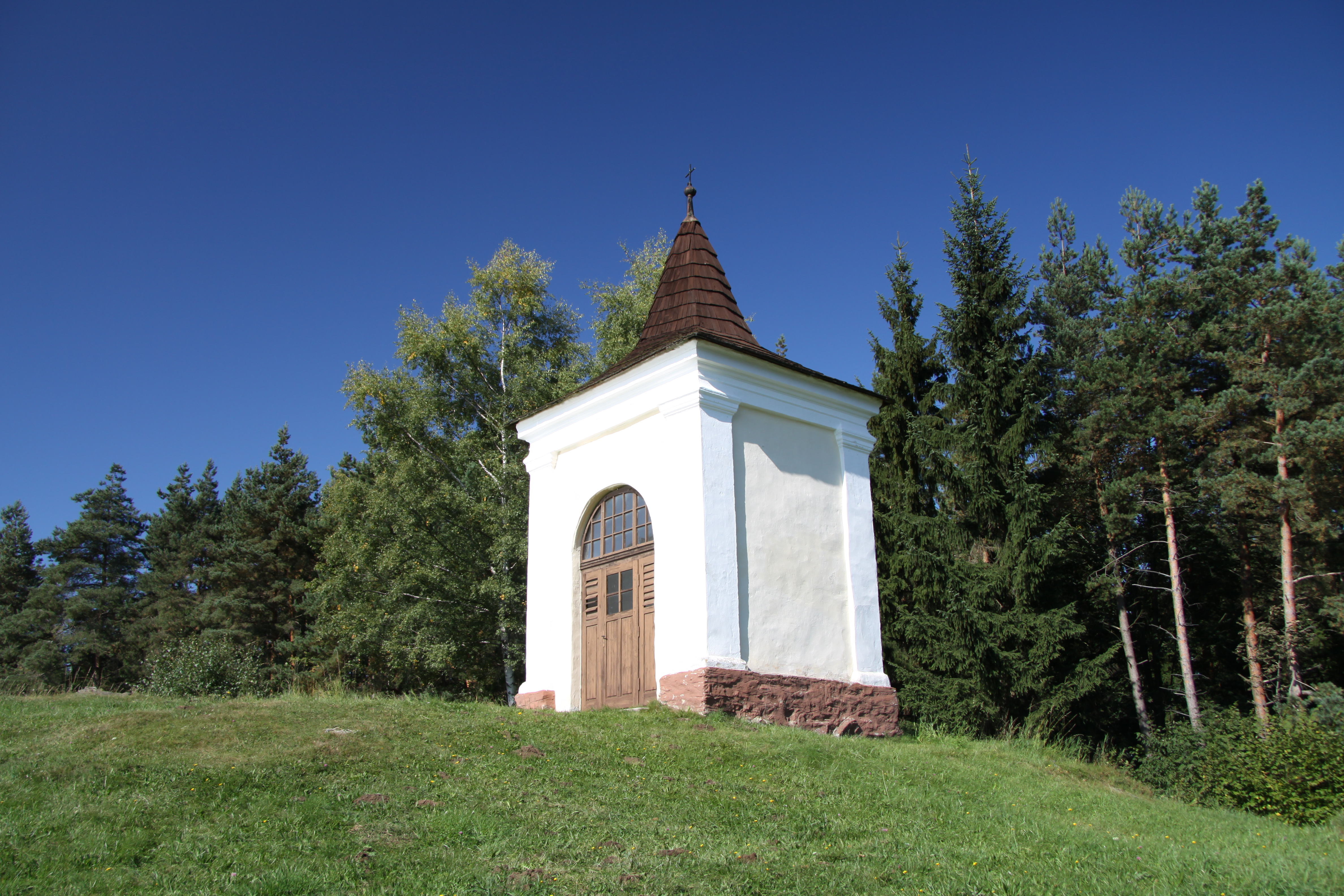 Chapel Sant Maria in Lštění, part of Radhostice municipality, Prachatice District, Czech Republic